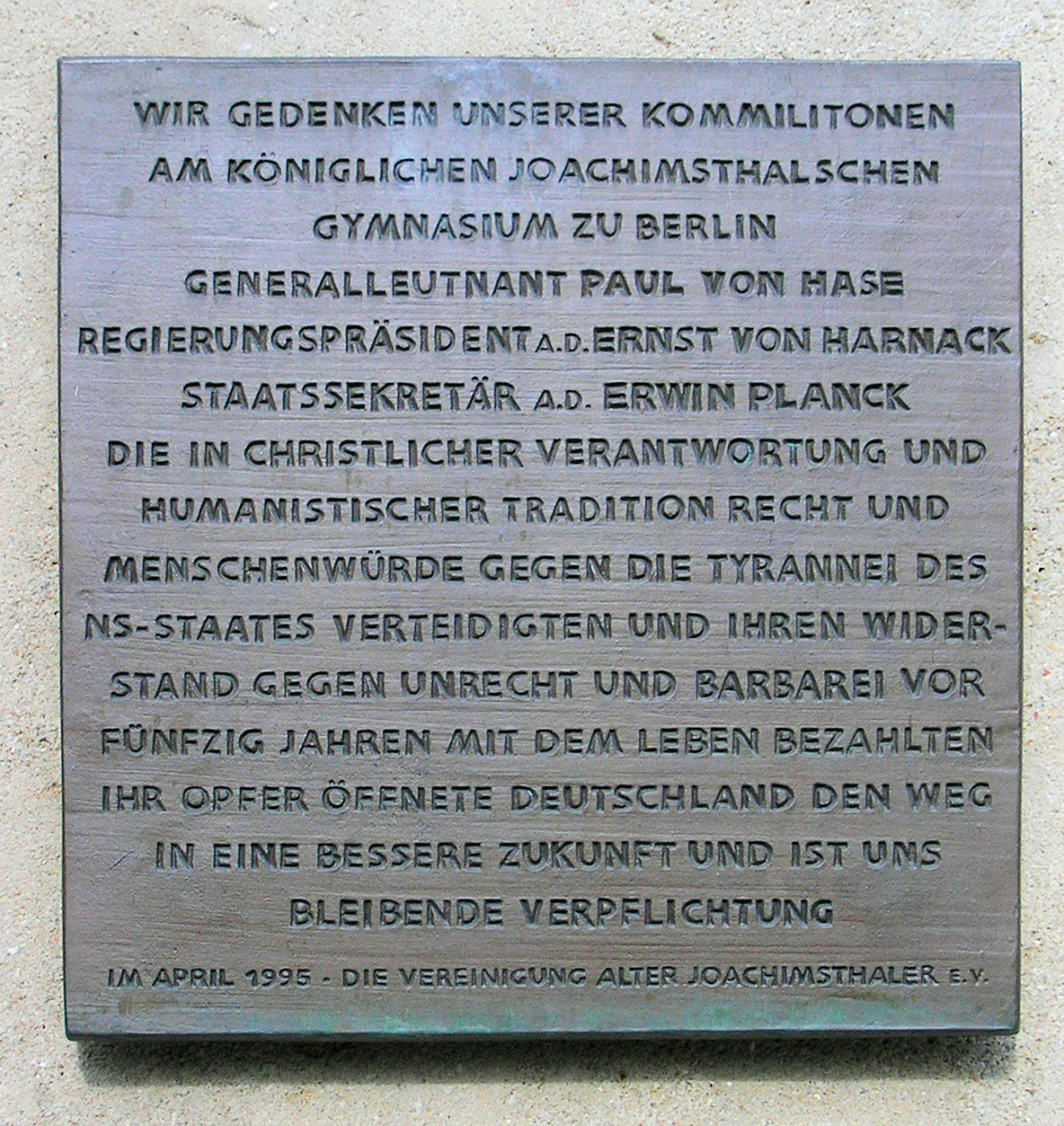 Memorial plaque, Joachimsthalsches Gymnasium, Bundesallee 1-12, Berlin-Wilmersdorf, Germany Koordinate:52°29′55″N 13°19′48″E / 52.49861°N 13.33°E